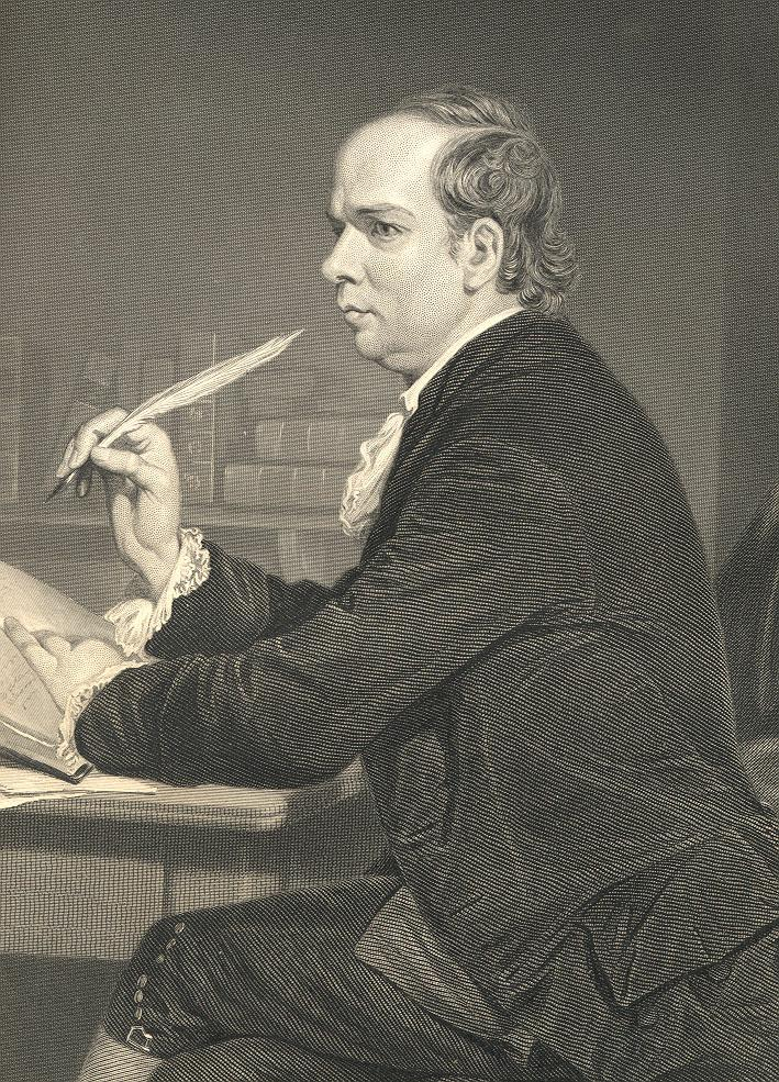 Oliver Goldsmith